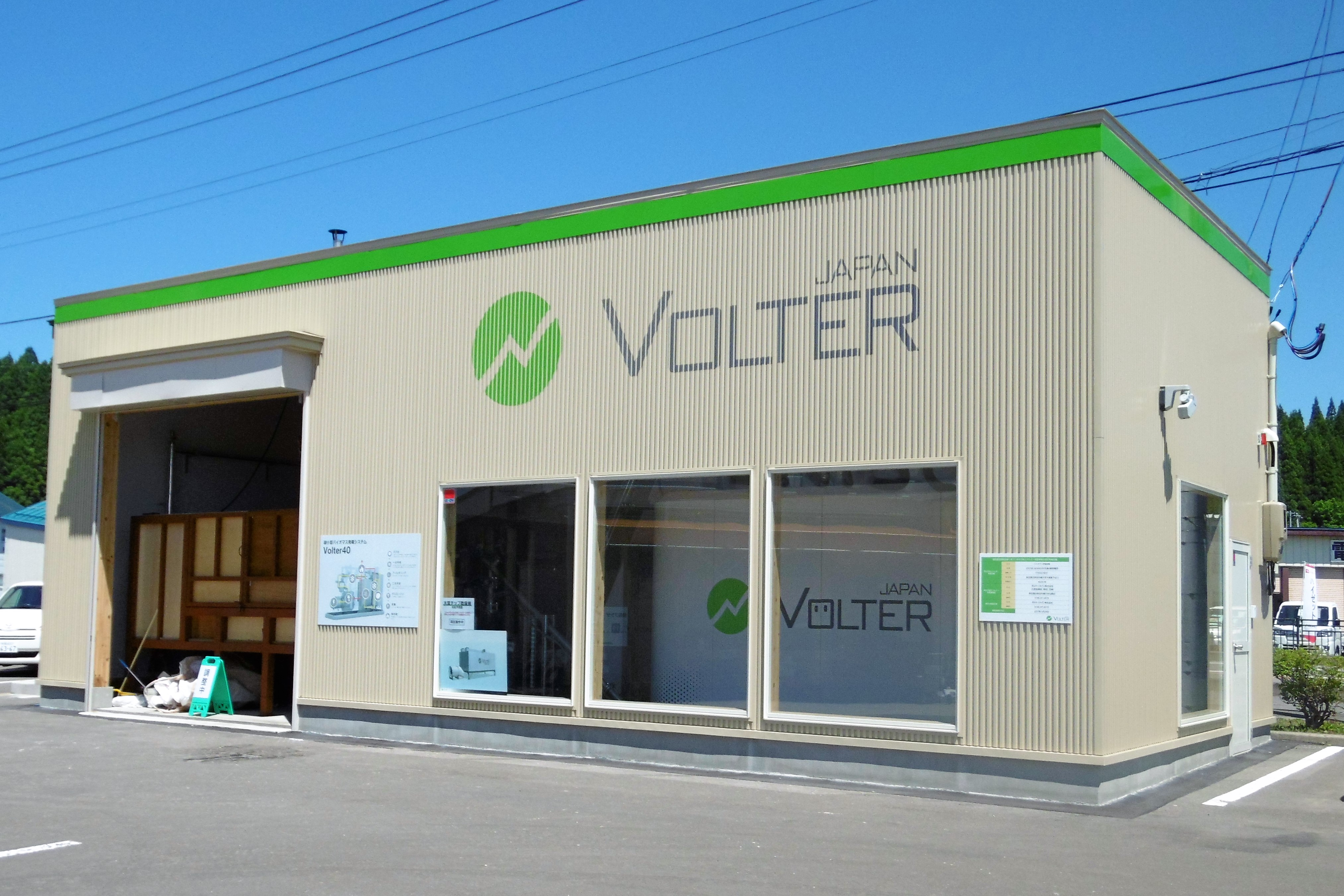 Ultra-small woody biomass generator introduced to Road Station Takanosu (Volter 40 )